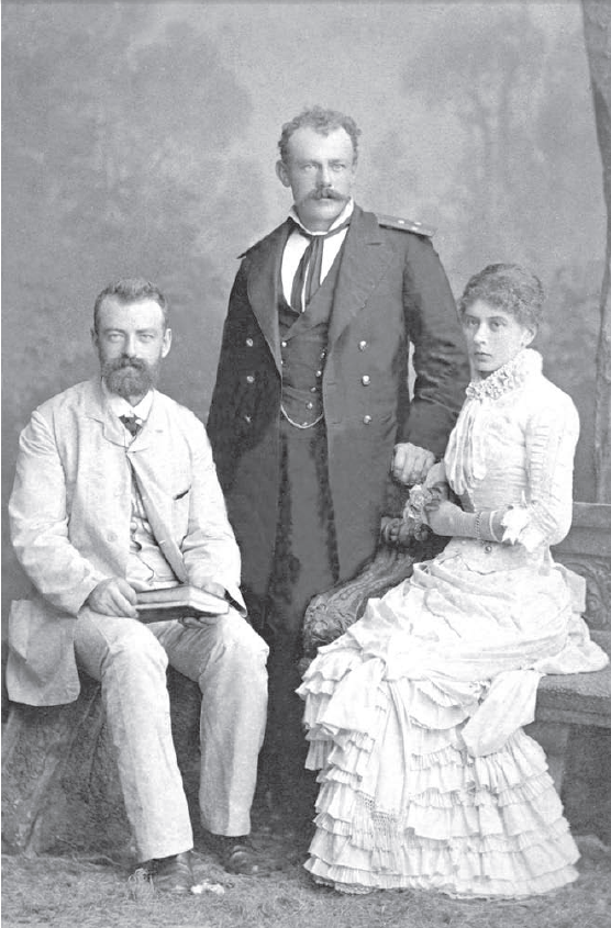 Myklukha Mykhailo (sitting), Volodymyr and his wife Julia (1883)